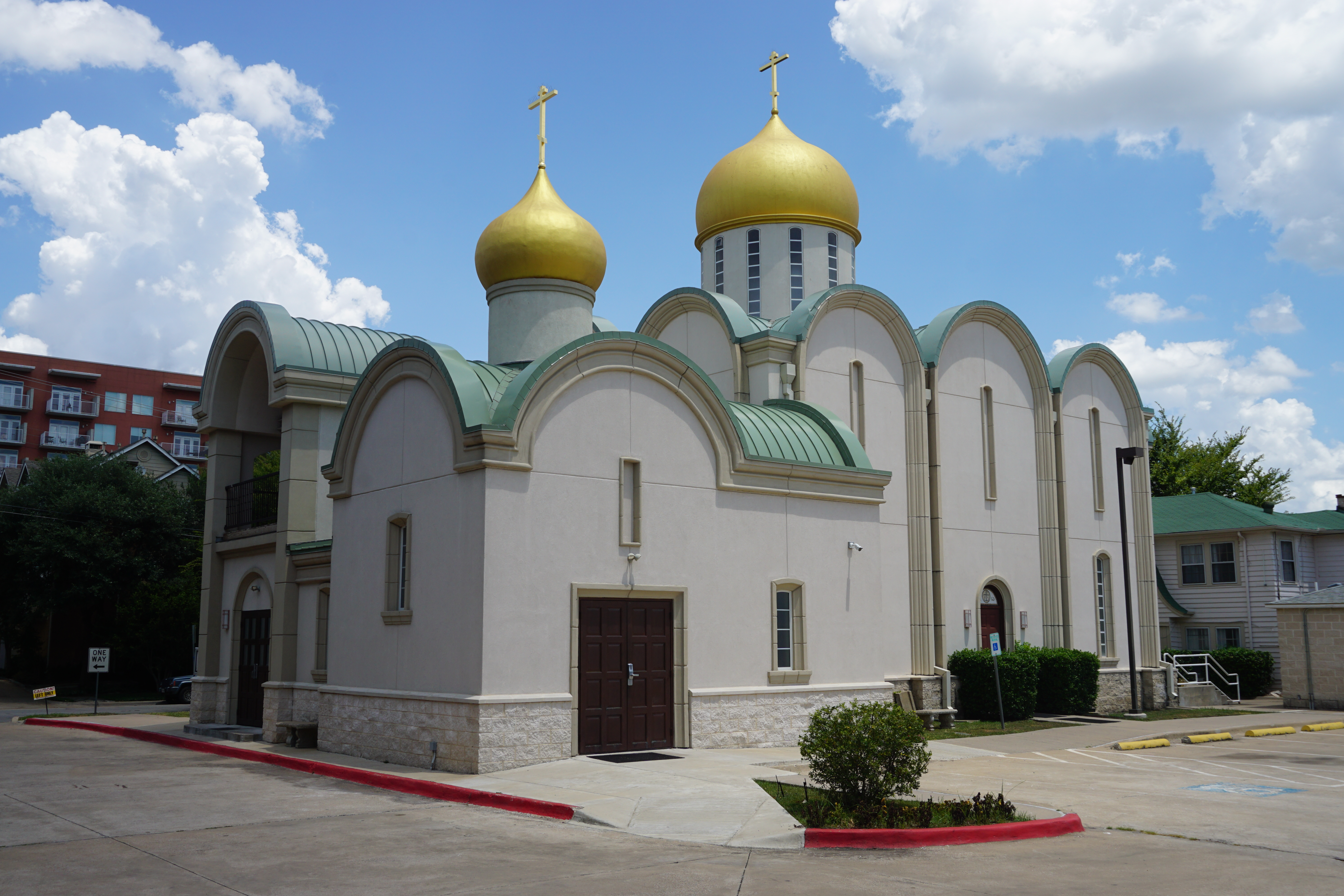 St. Seraphim Orthodox Cathedral in Highland Park, Texas (United States).